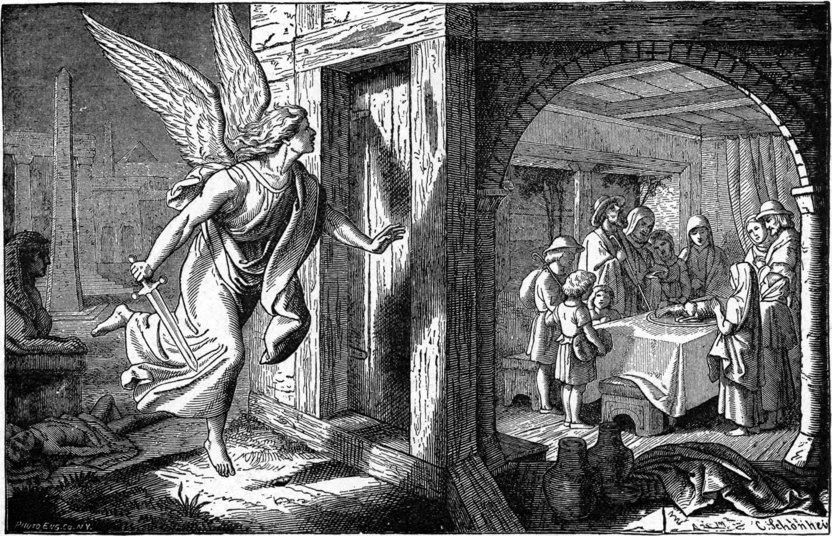 The Angel of Death and the First Passover. Caption: "The angel is going through King Pharaoh's land. He is going through it in the night. The angel will go into King Pharaoh's house and make his son to die. He will go into all the people's houses and make their sons to die because they have been so cruel to the Israelites. But the angel will not go into the houses where the Israelites live, to make their sons die. God told the Israelites that the angel was coming, and he told them to kill a lamb, and take its blood and sprinkle it over the doors of the houses. And when the angel saw the blood, God said, he would not come into the house to hurt them. In the picture we see the blood sprinkled over the door and at each side of it. The angel sees the blood. He will pass over this house and not harm any one in it. We can see the family inside. They are eating the Feast of the Passover." Illustration from the 1897 Bible Pictures and What They Teach Us: Containing 400 Illustrations from the Old and New Testaments: With brief descriptions by Charles Foster